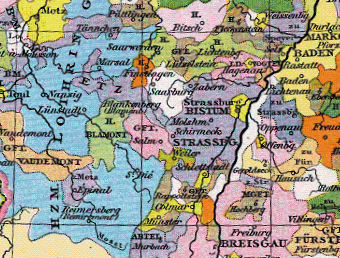 County of Obersalm around 1400